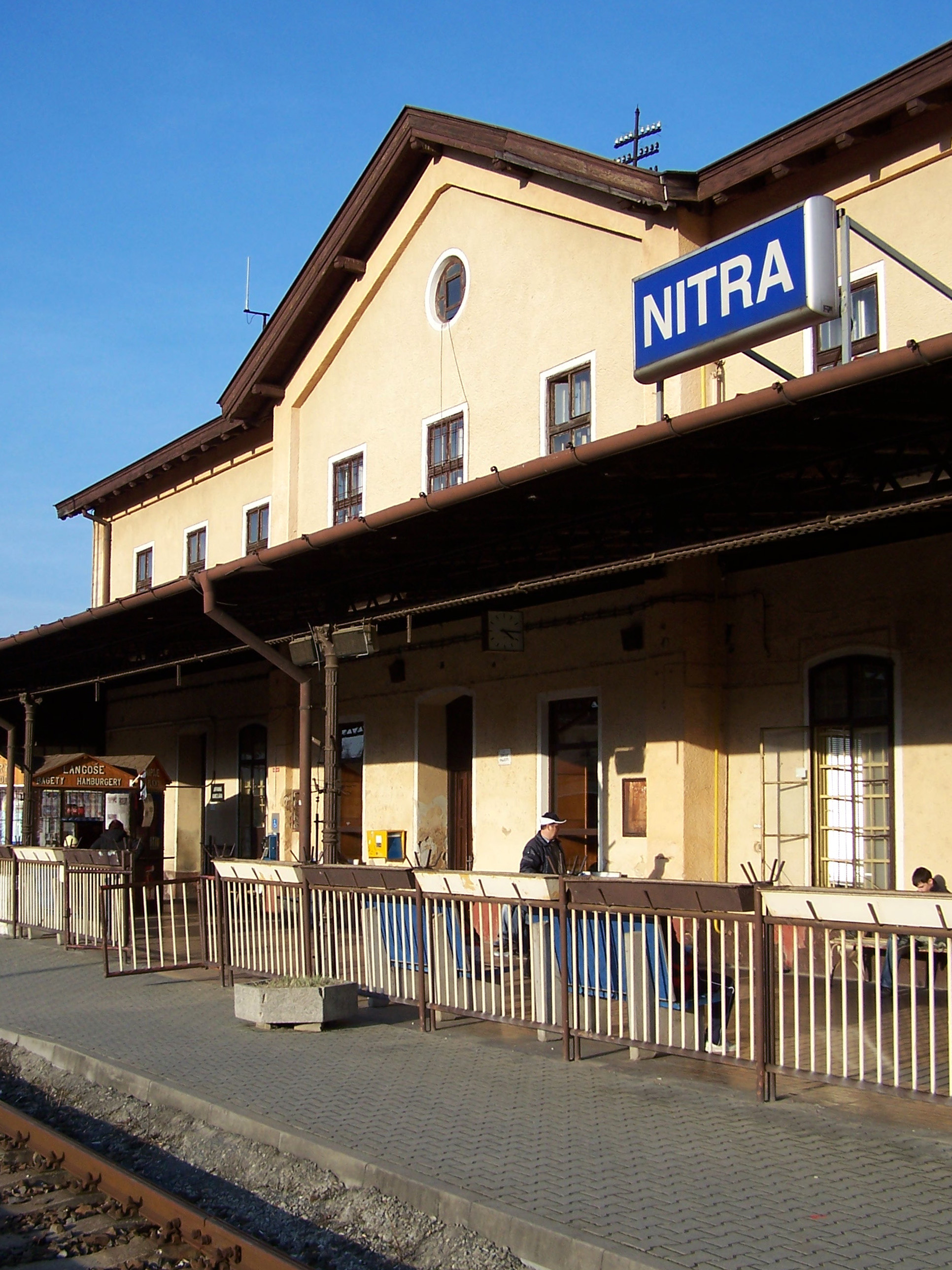 Railway station in Nitra, South Slovakia